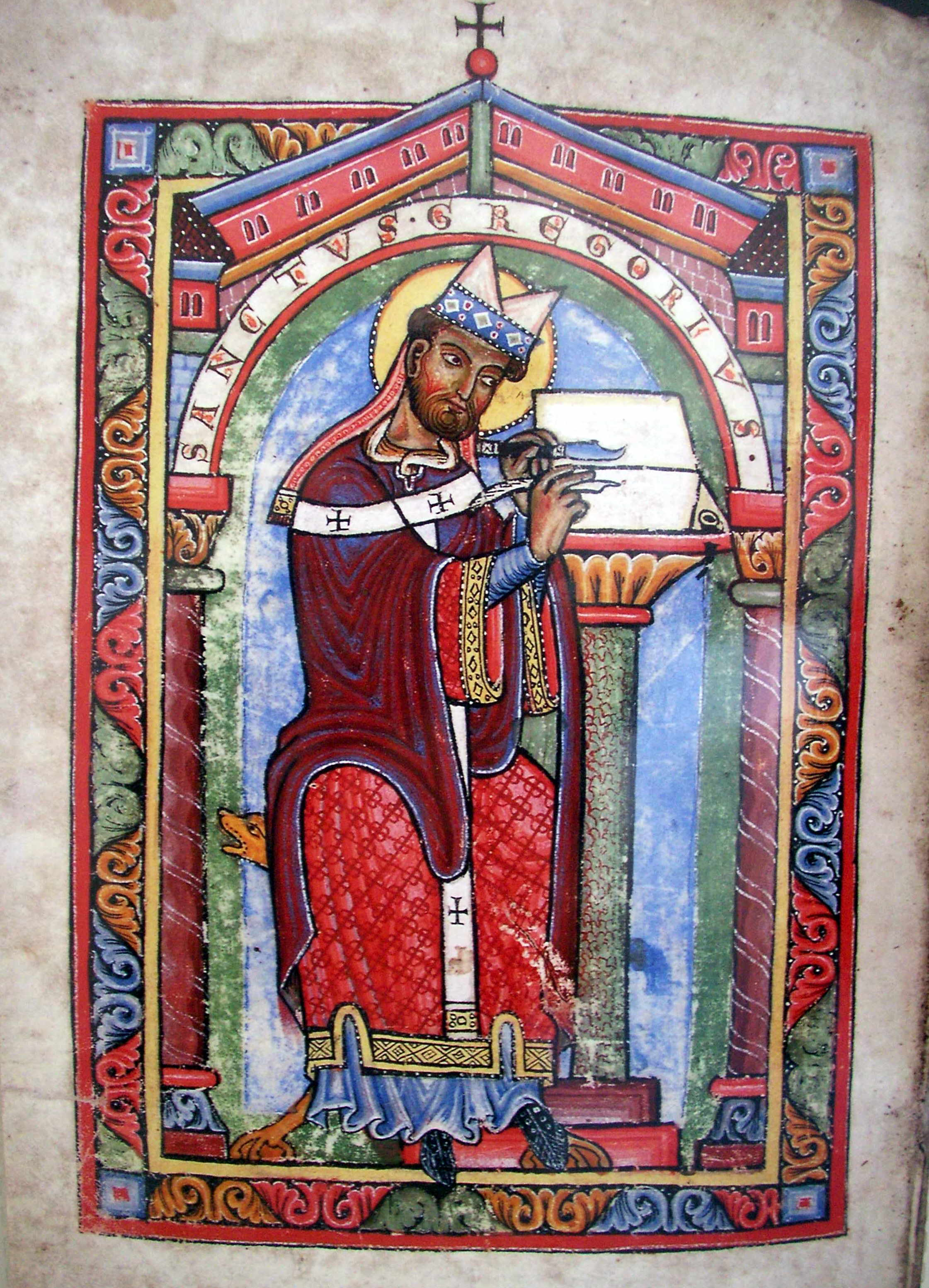 Page of the „Millstätter Handschrift“, a manuscript on parchment produced around the year 1200 in the Millstatt Abbey near Spittal an der Drau / Carinthia / Austria / EU.